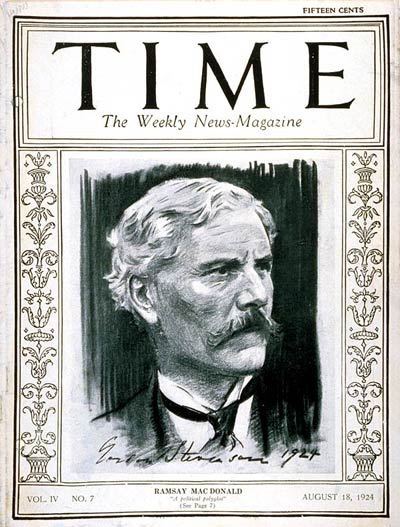 Ramsay MacDonald on Time magazine cover, 1924.